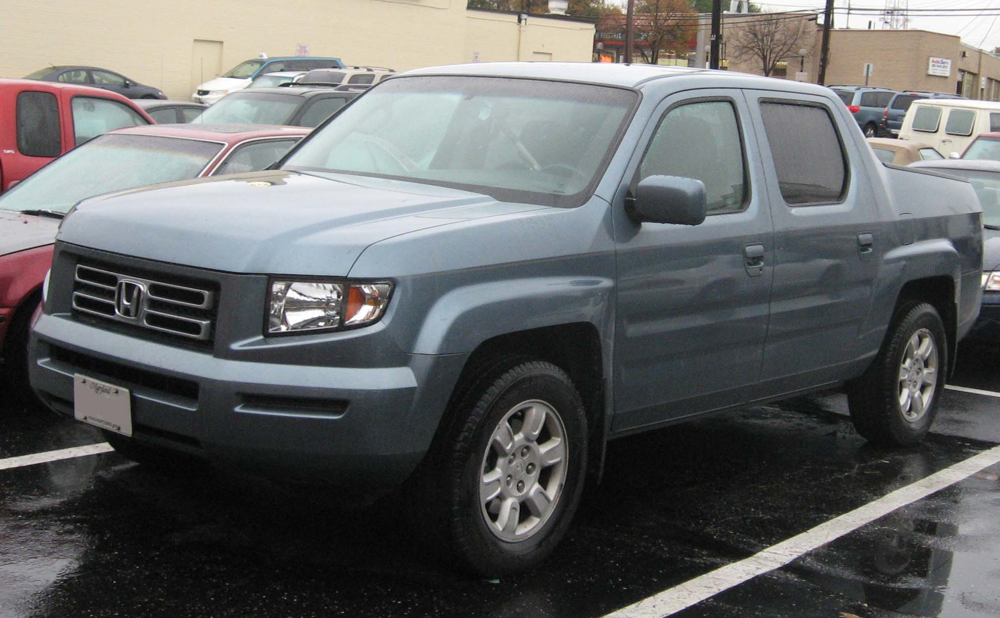 Honda Ridgeline photographed in Wheaton, Maryland, USA.